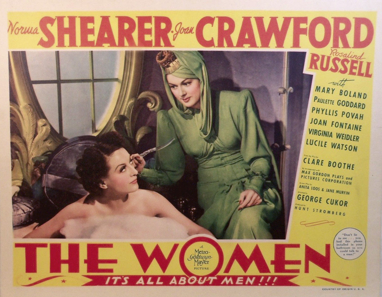 Lobby card from the 1939 film The Women.